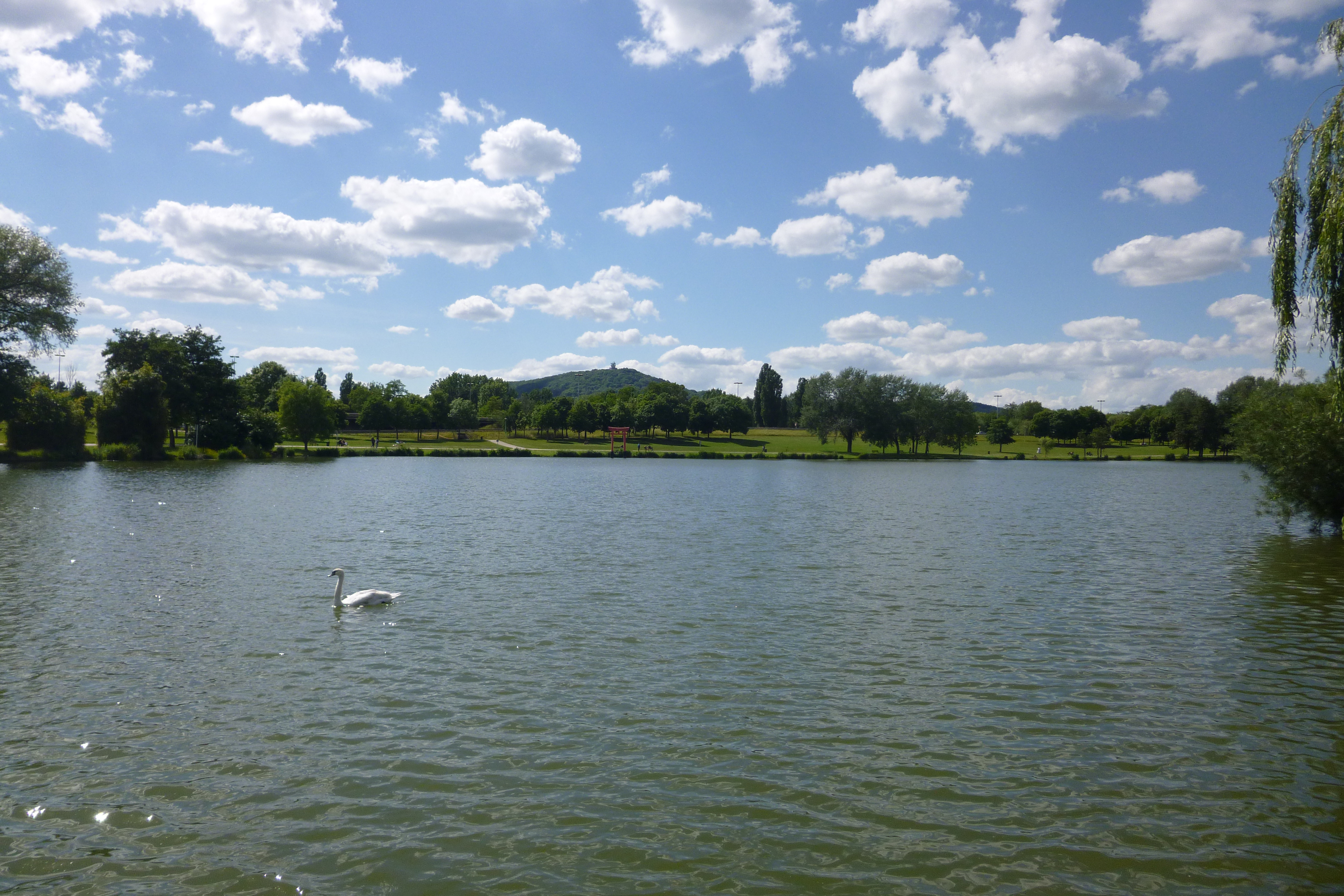 View of Metz water basin, with in background the Saint-Quentin Mount.